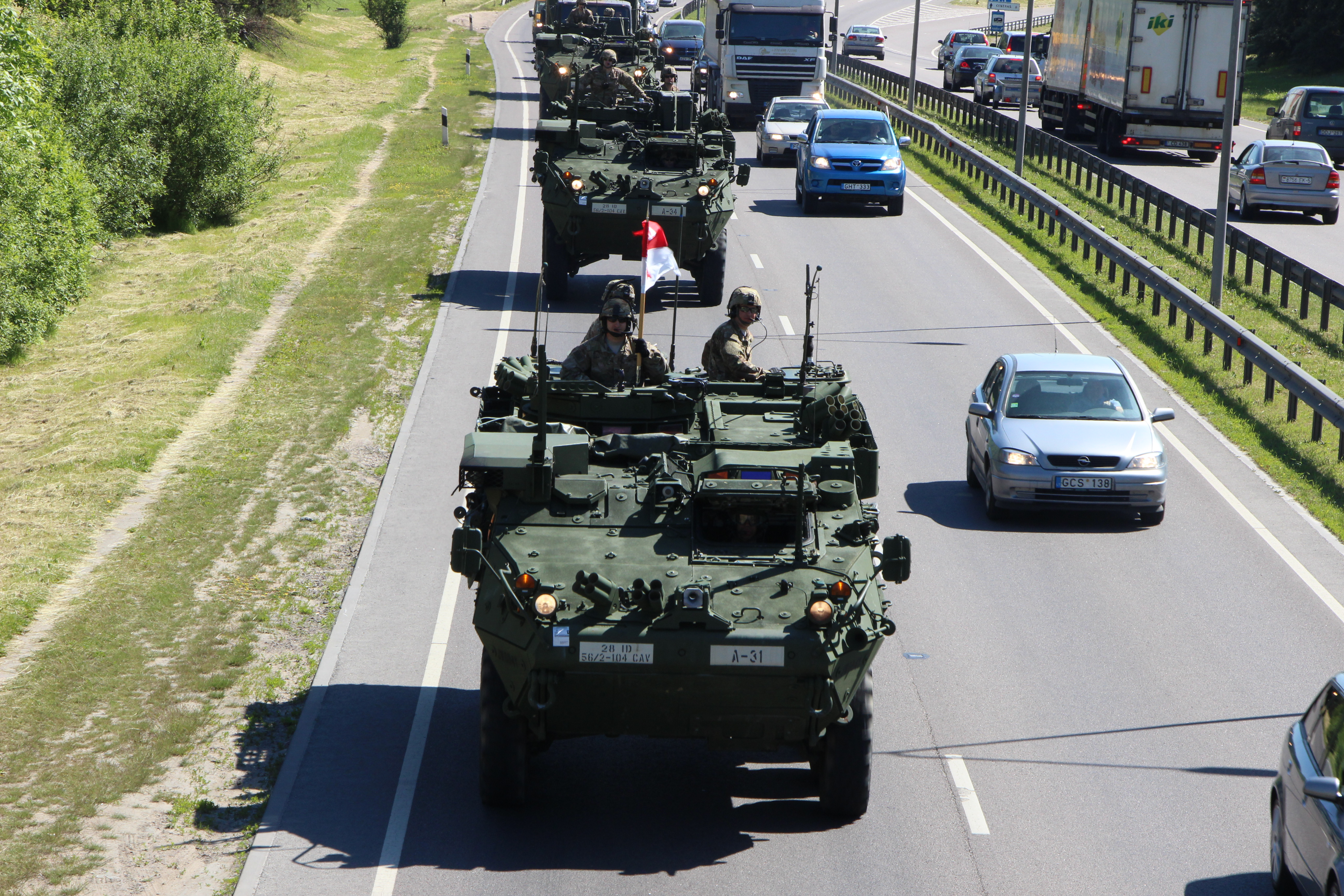 Stryker vehicles from the 56th Stryker Brigade Combat Team, 28th Infantry Division, Pennsylvania Army National Guard arrive in Vilnius, Lithuania June 8 to participate in Saber Strike 2015. C-17s from the New York and West Virginia Air National Guard transported the vehicles and Soldiers from their home station. Saber Strike is a long-standing U.S. Army Europe-led cooperative training exercise. This year’s exercise objectives facilitate cooperation amongst the U.S., Estonia, Latvia, Lithuania, and Poland to improve joint operational capability in a range of missions as well as preparing the participating nations and units to support multinational contingency operations. There are more than 6,000 participants from 13 different nations. (Photo by Lt. Andrius Dilda, Lithuanian Land Force)